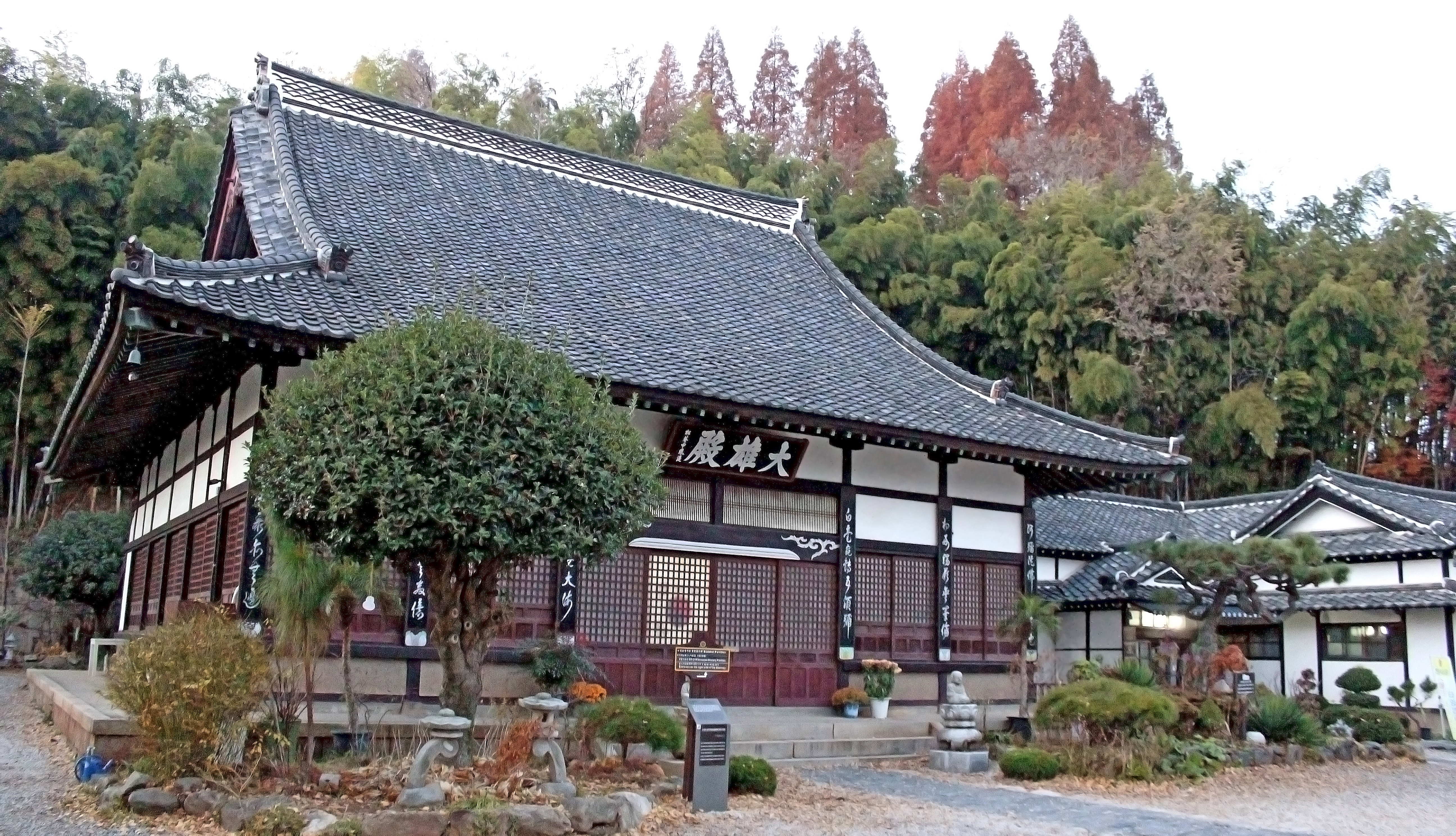 Dongguksa in Gunsan